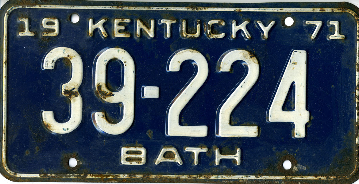 Example of a 1971 Kentucky license plate.